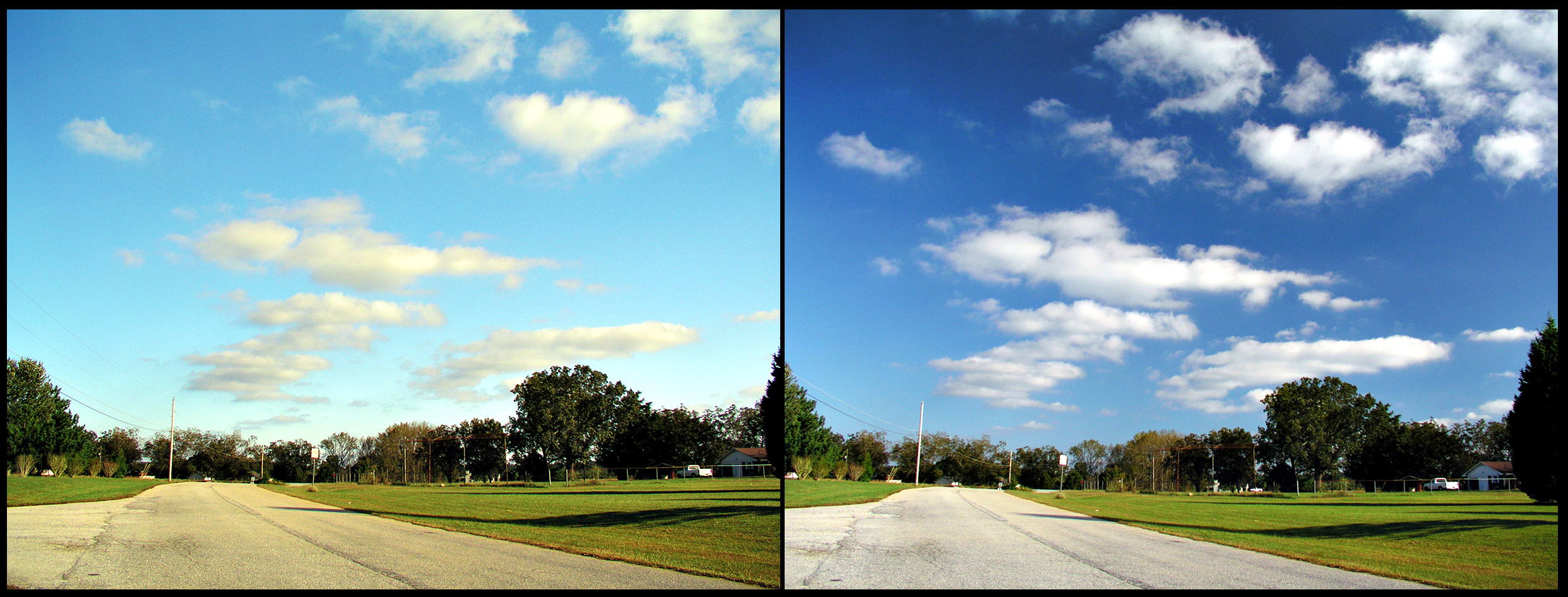 The effects of a polarizing filter on the sky in a photograph. The picture on the right uses the filter.